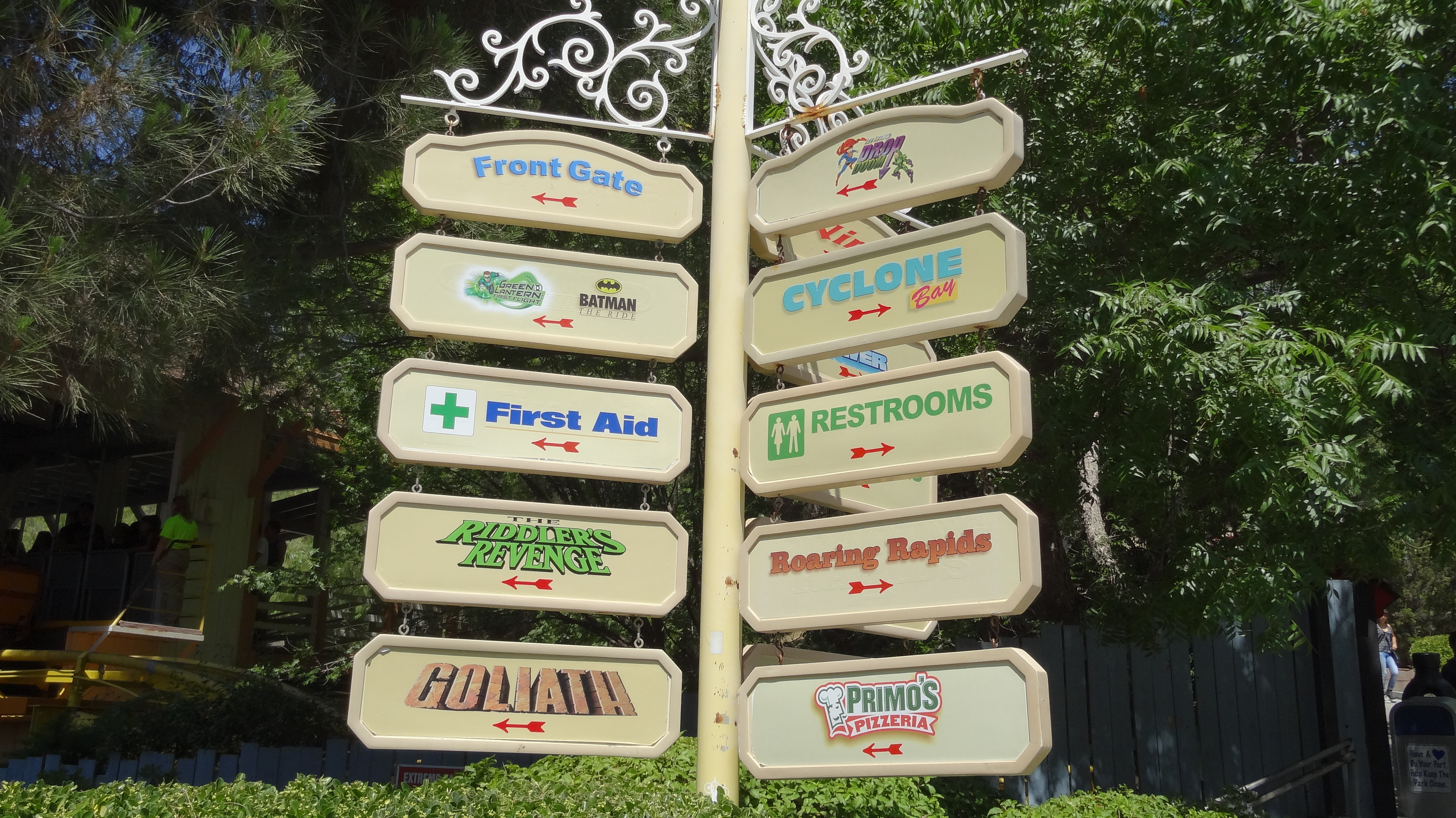 Sign to nearby rides and other attractions.